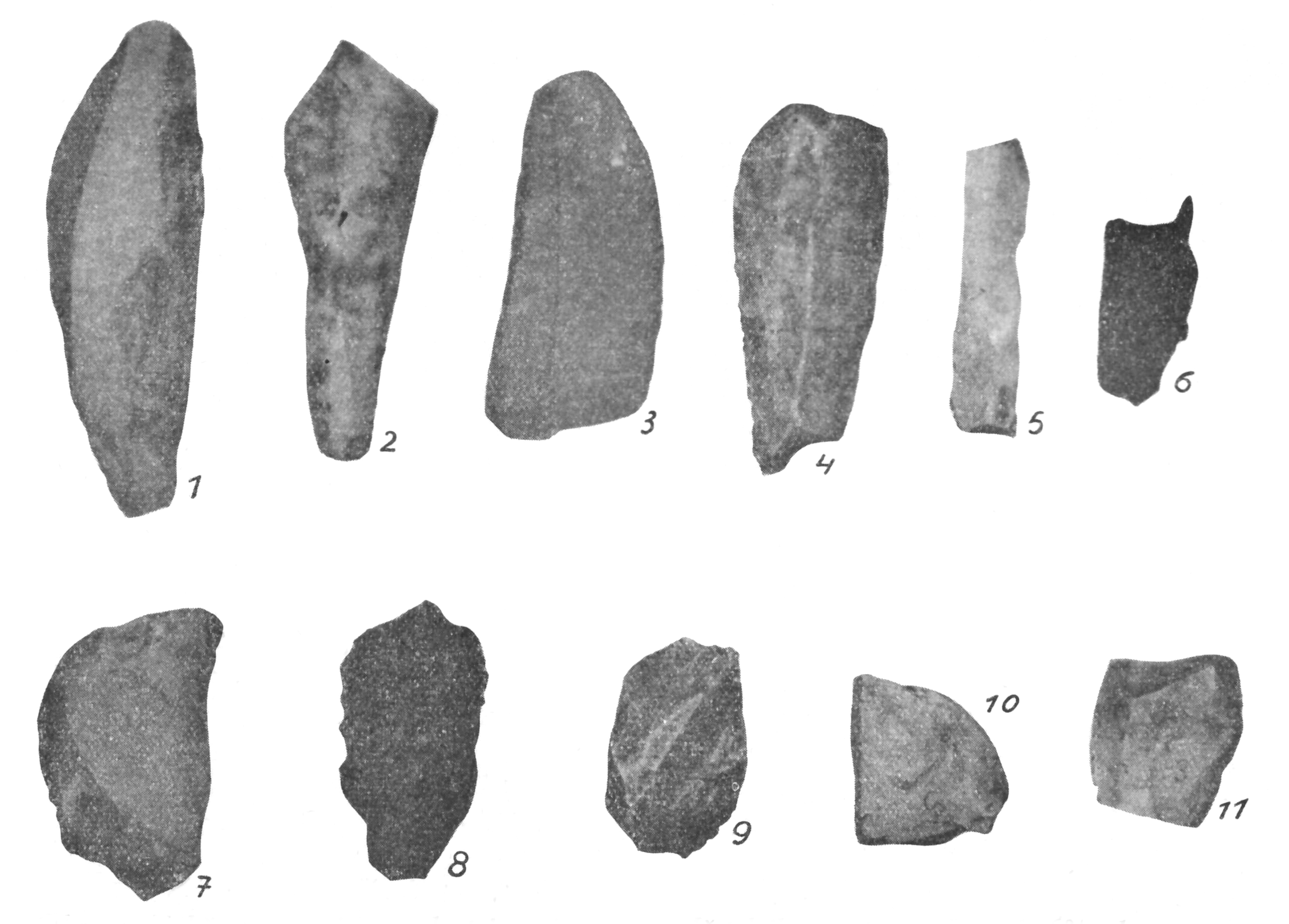 Paleolithic artifacts which used to be a part of the archaeological collection of the Museum Litovel. No. 1–3, 5–8 and 11 are from a site in Plavatisko, no. 4, 9 and 10 from the cave Podkova, both near the village Mladeč.